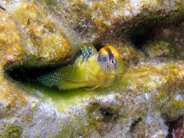 Male Salaria pavo photographed in Cres, Croatia.